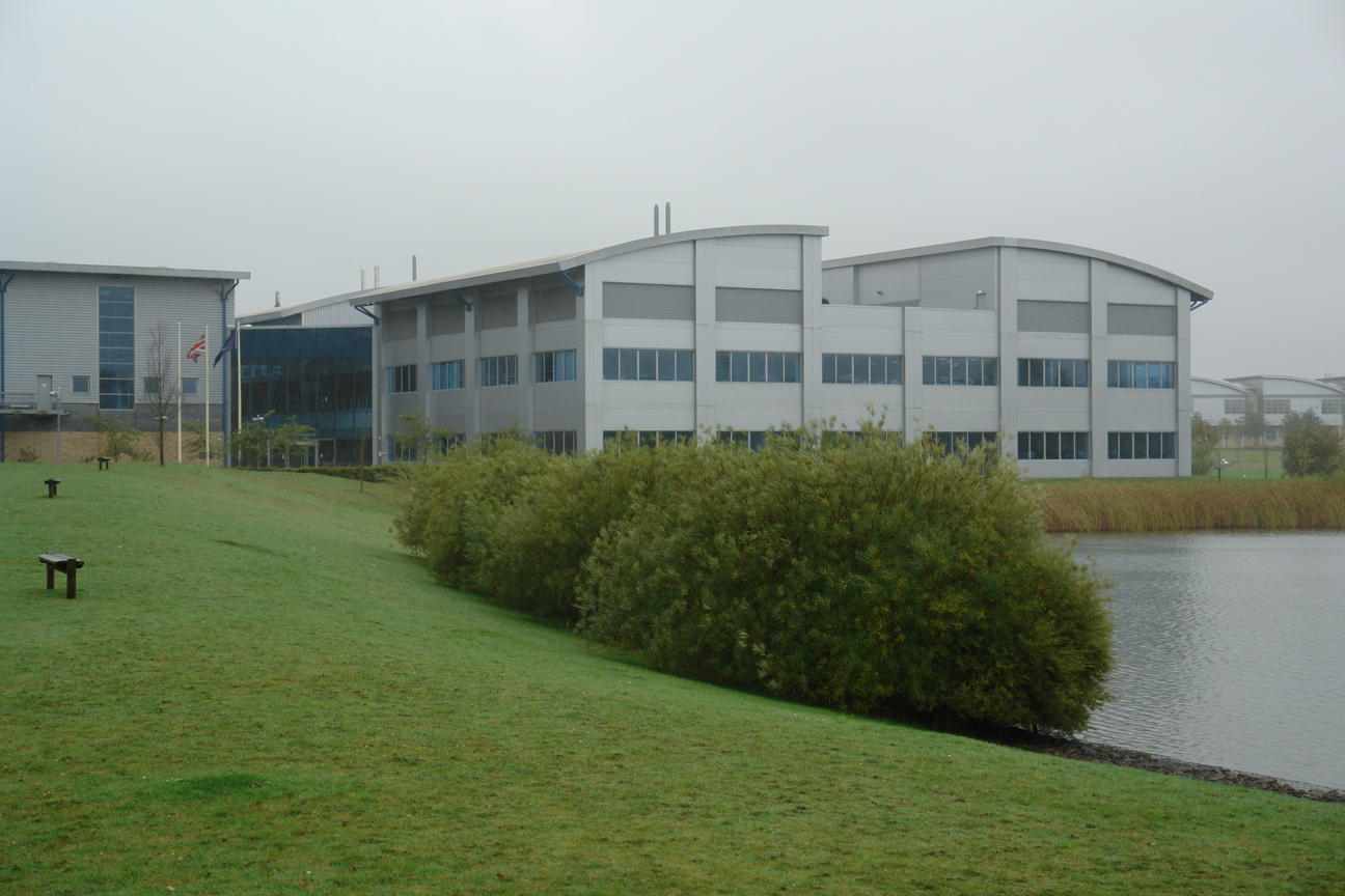 TWI Ltd (The Welding Institute) is one of the world's leading R&D institutes for welding and joining technology. It is based on Granta Park near Cambridge (UK).